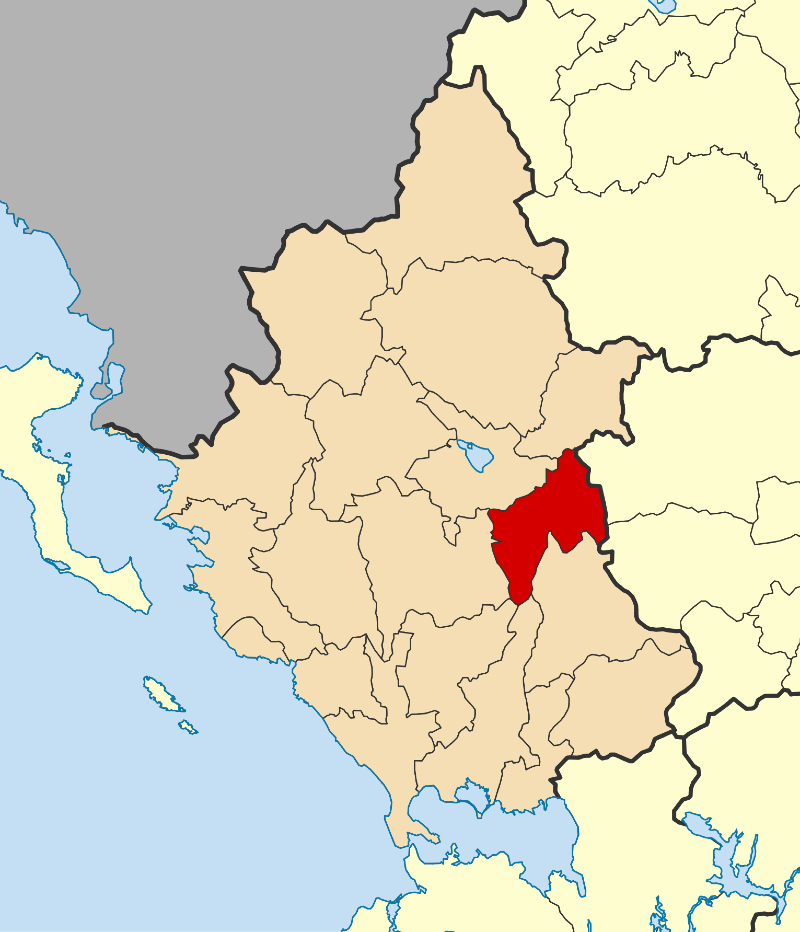 Locator map for Voria Tzoumerka municipality in Greek region Epirus (2011)